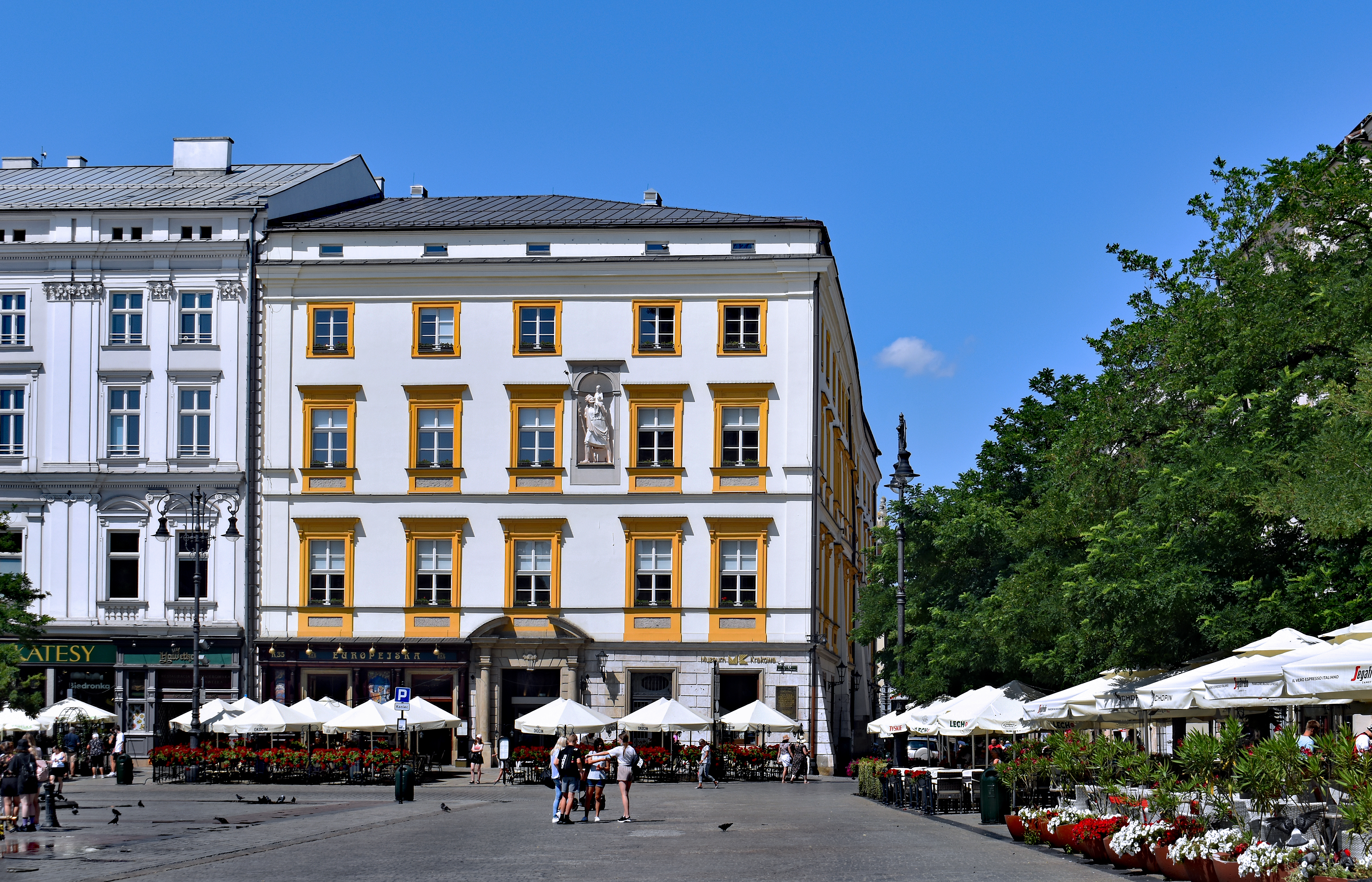 Pod Krzysztofory Palace, 35 Main Market square, Old Town, Kraków, Poland